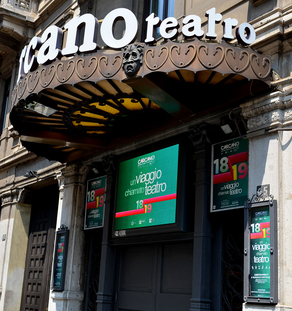 Teatro Carcano, l'ingresso su Corso di Porta Romana, Milano.